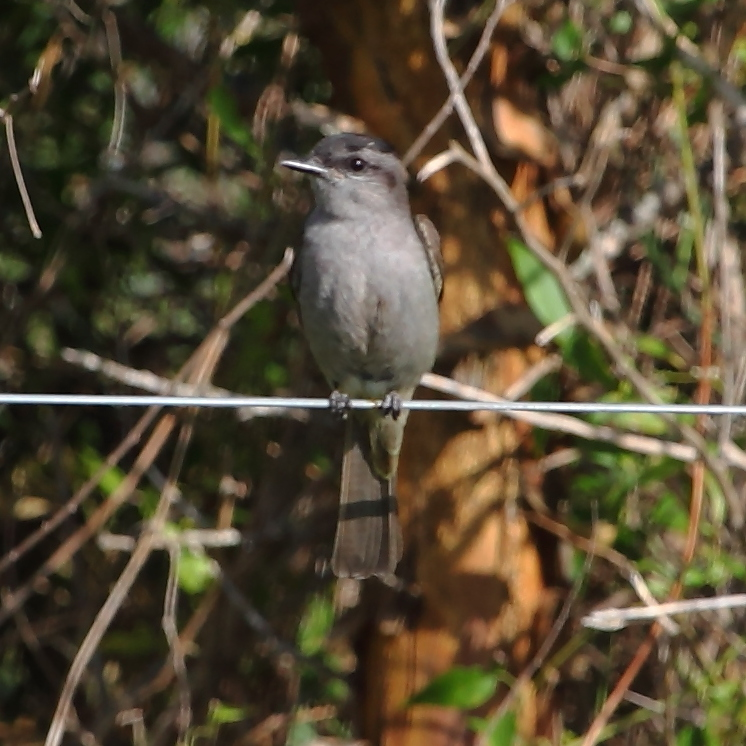 Crowned-slaty Flycatcher at Capivara - Santa Fe - Argentina